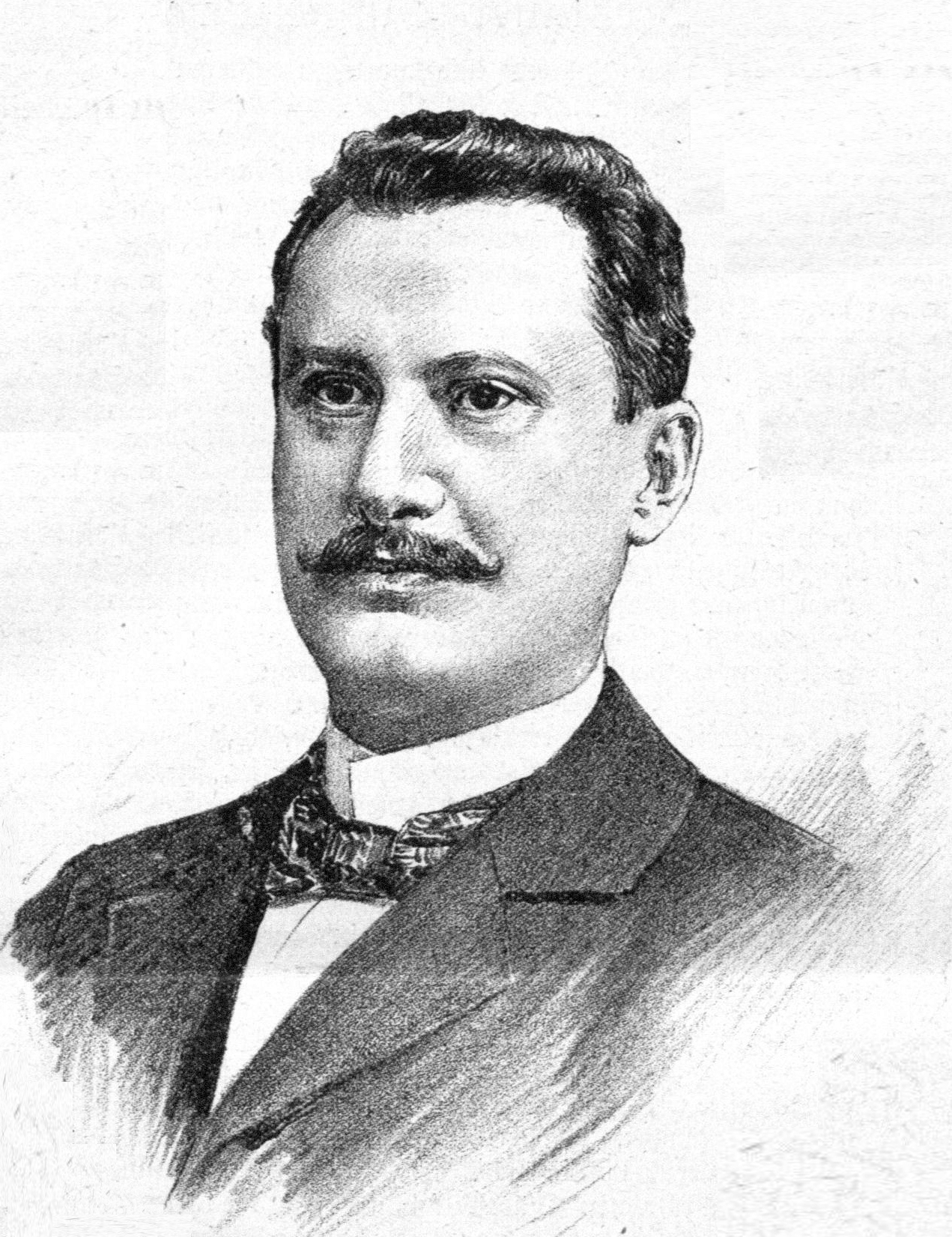 Portrait of Wilhelm Karczag (1857-1923), Austrian theater director and writer.